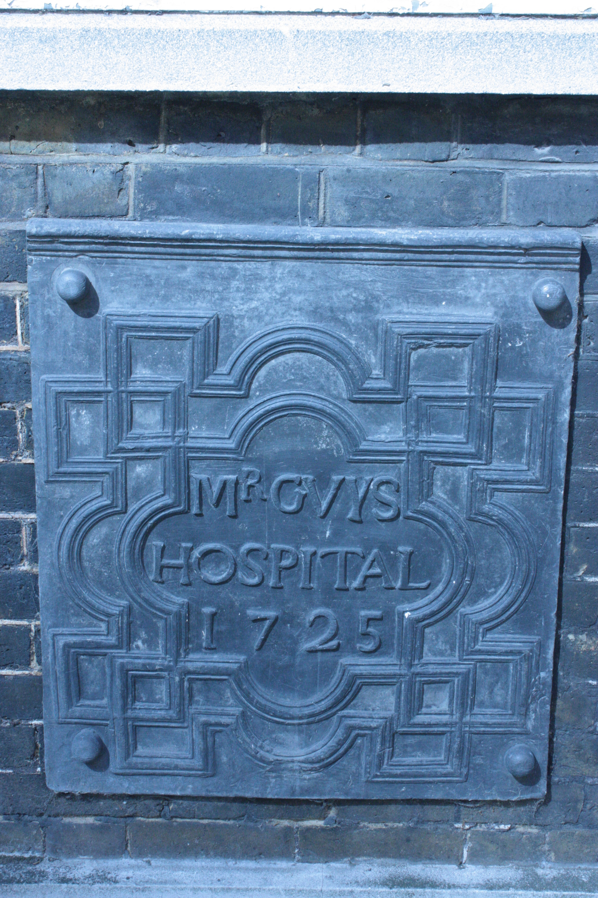 Foundation plaque, Guy's Hospital, London